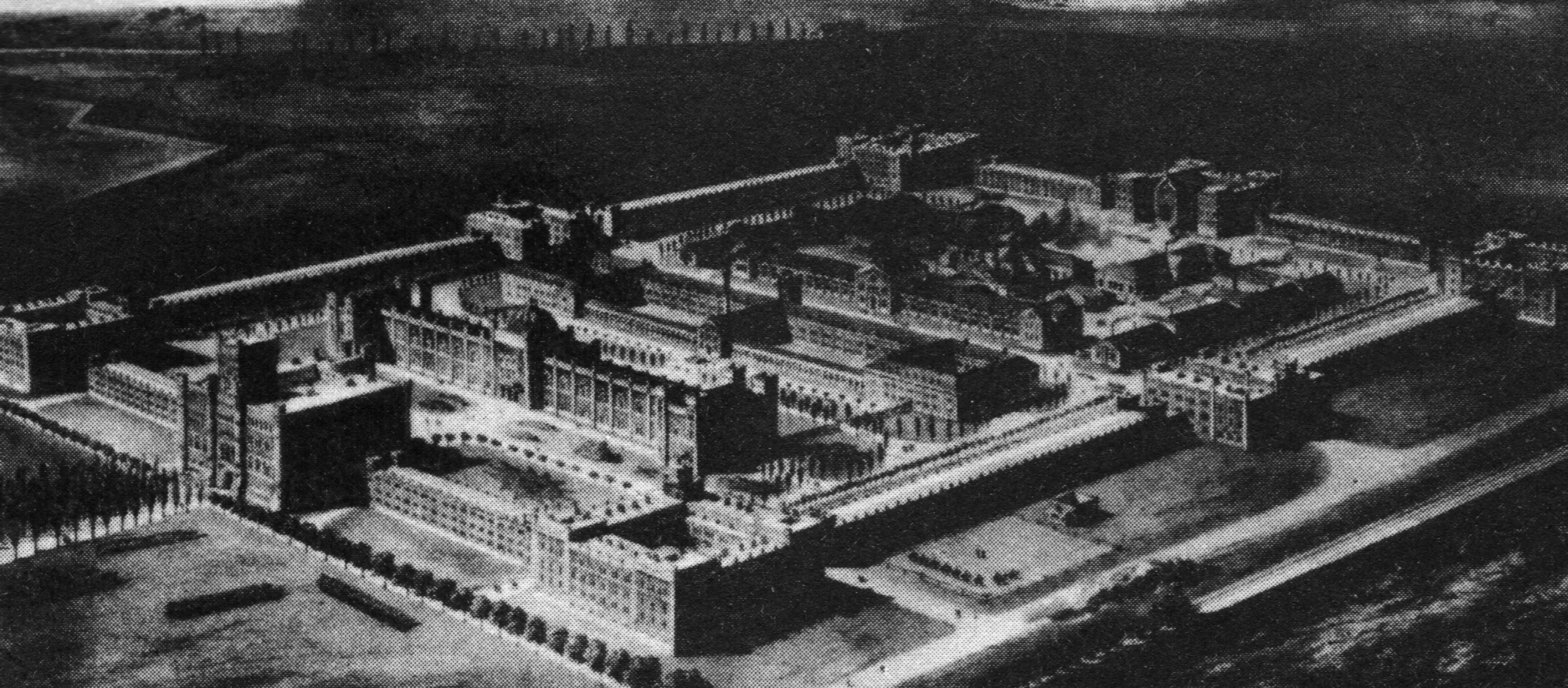 Vienna Arsenal shortly after completion 1855 (barracks, museum, production facilities for war materials)